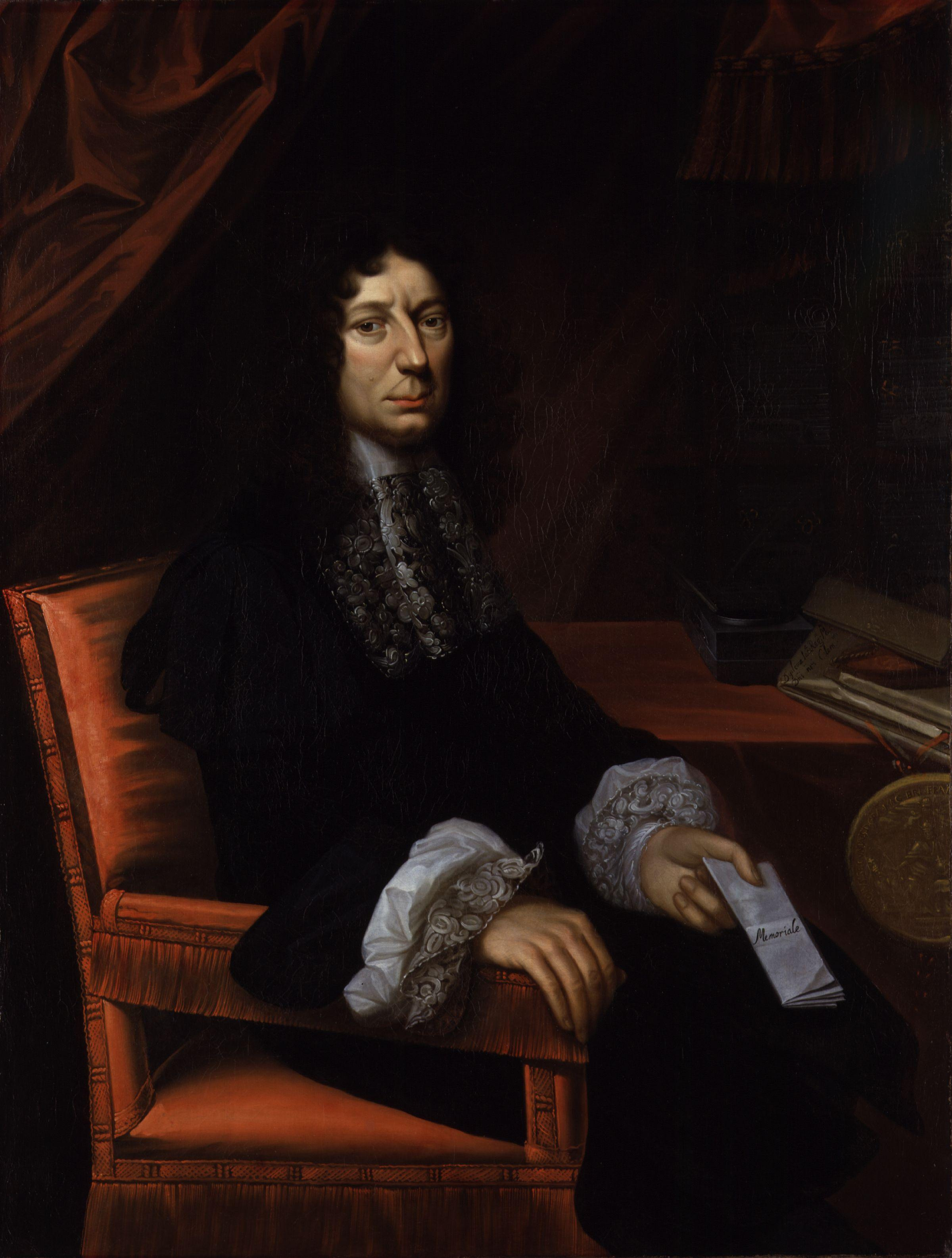 Sir Leoline Jenkins, by Herbert Tuer (died 1691), given to the National Portrait Gallery, London in 1860. All images in this batch have been confirmed as author died before 1939 according to the official death date listed by the NPG.